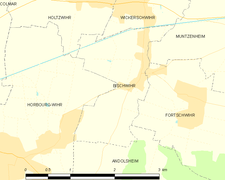 Map of French municipality